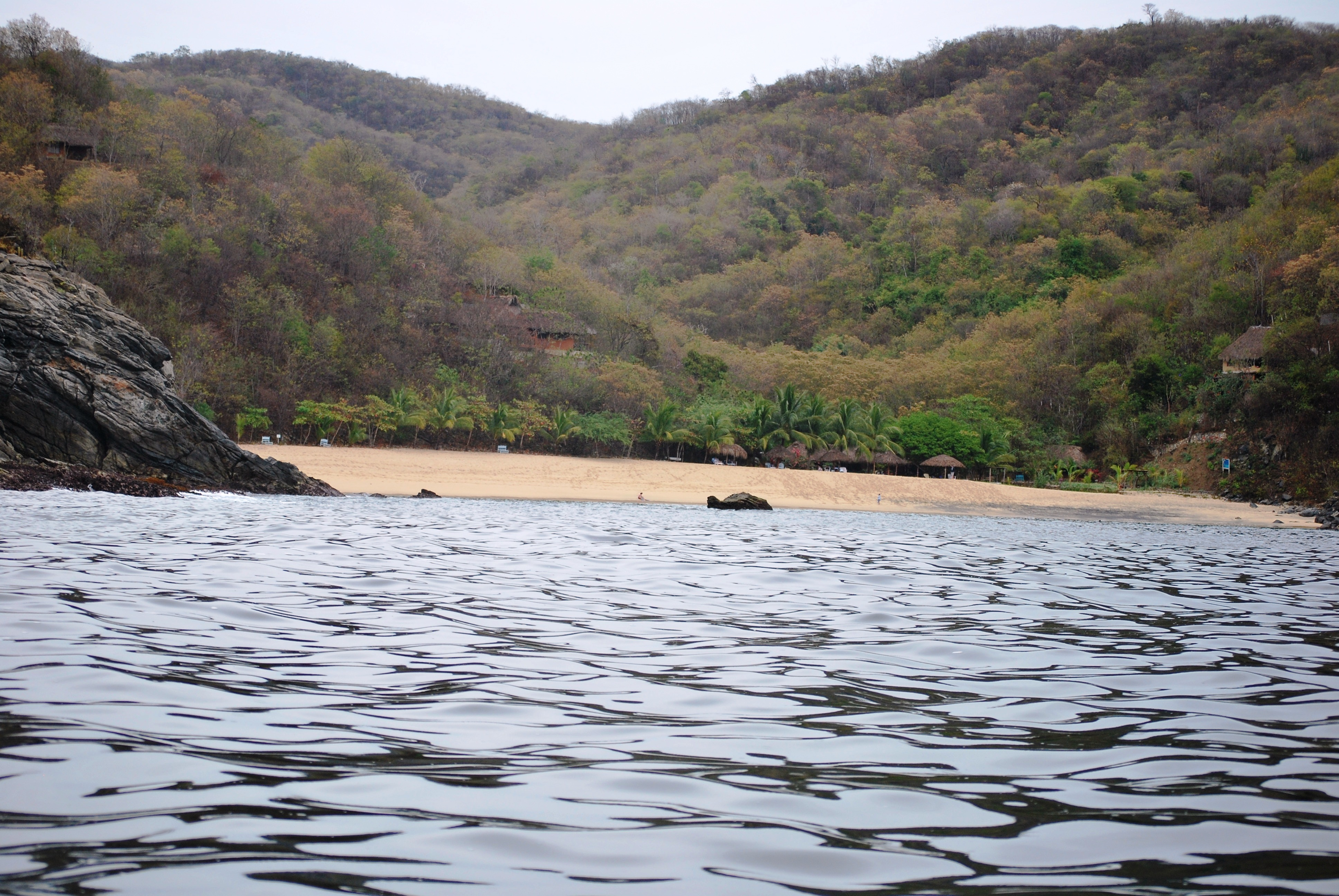 View of Playa Boquilla, Oaxaca